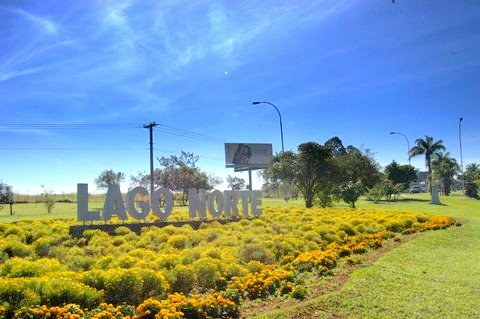 north lake entrance